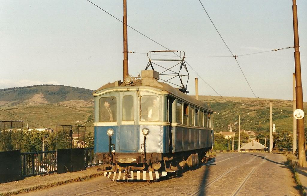 The tram "The Green Arrow" in Arad